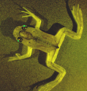 GFP expressed in the eye of a frog under the control of the gamma-crystalline promoter. Found on the web at